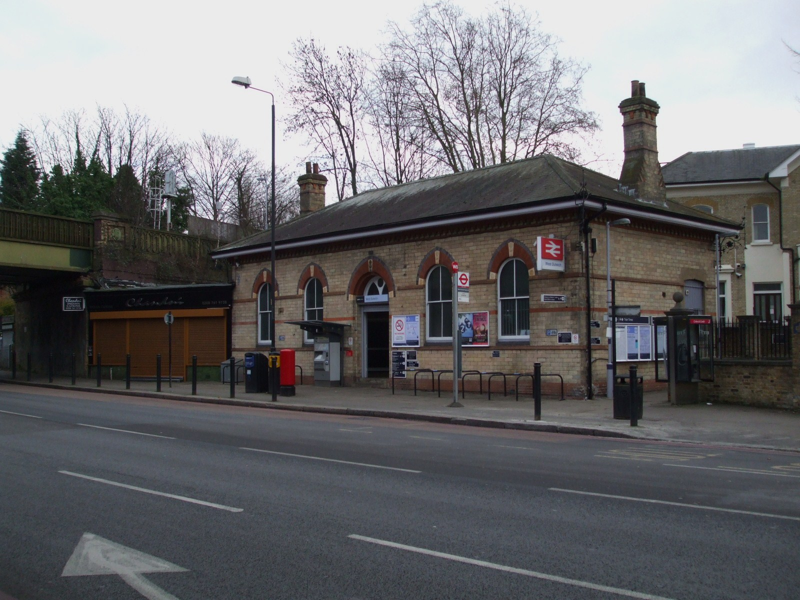 West Dulwich station main building, on the London-bound side